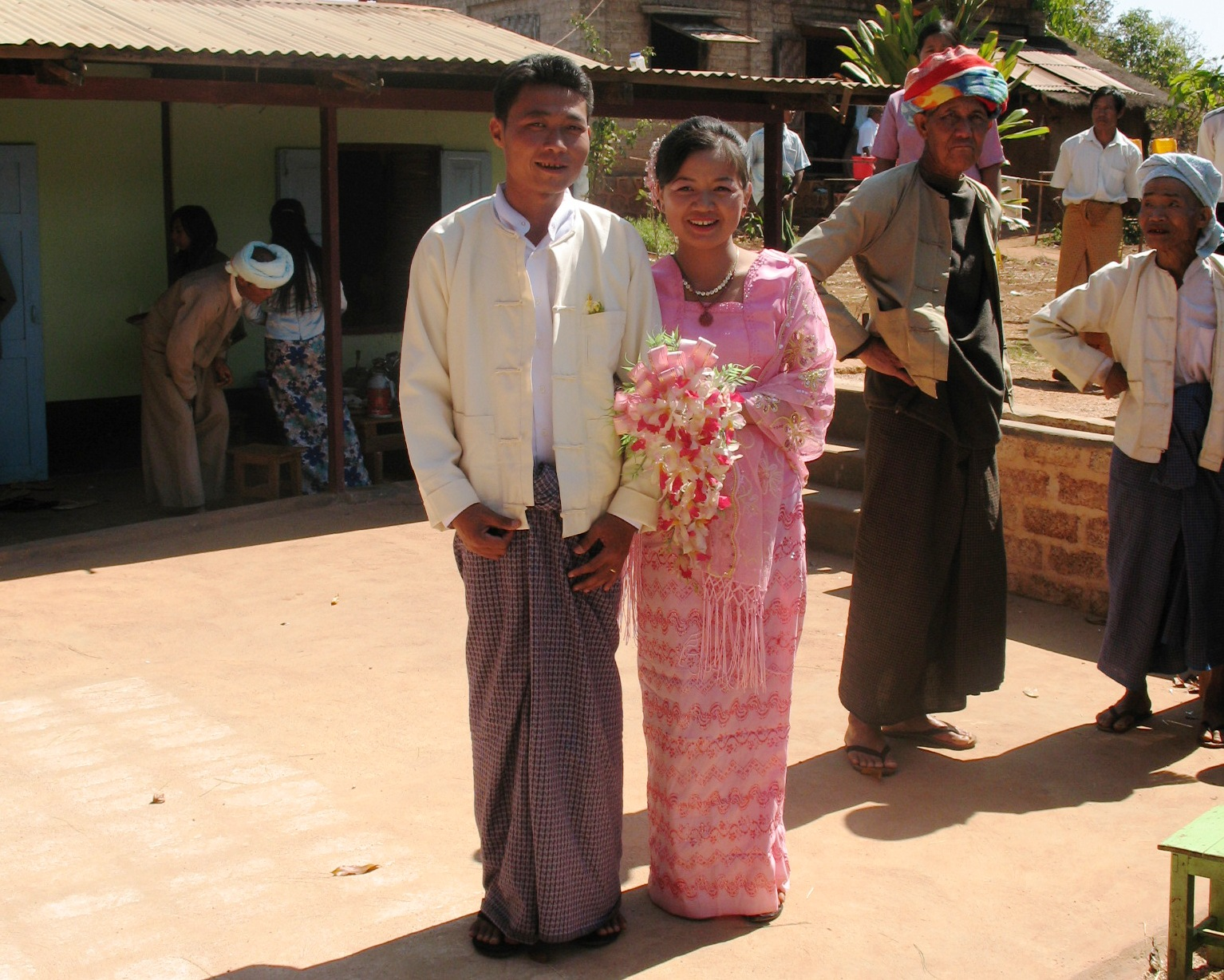 Burmese (Myanmar) Bride&Groom